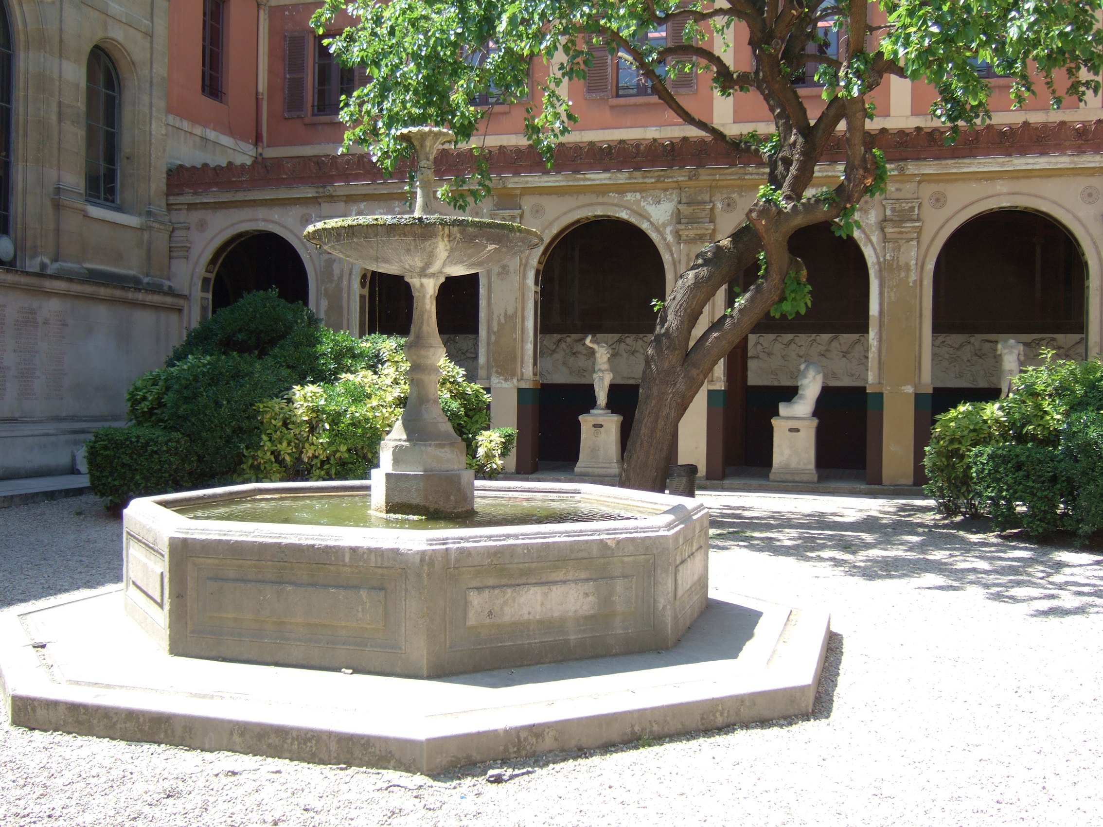 Ecole Nationale Superieure des Beaux-Arts, Paris, ENSBA, cour du murier